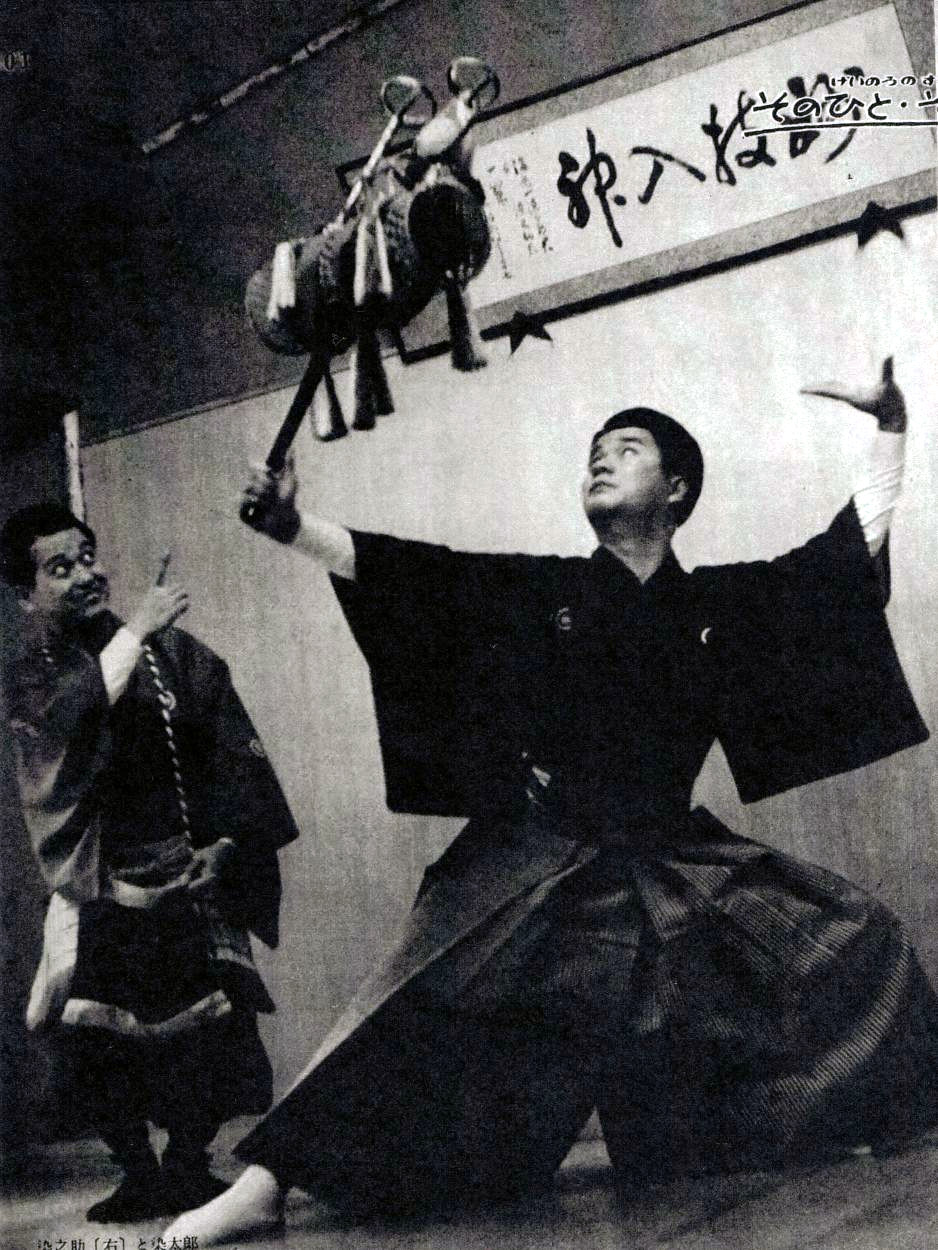 Somenosuke (Light) and Sometarō Ebiichi Brothers.